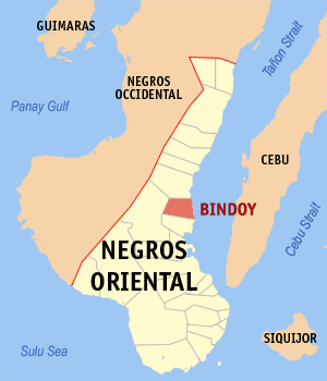 Map of Negros Oriental showing the location of Bindoy